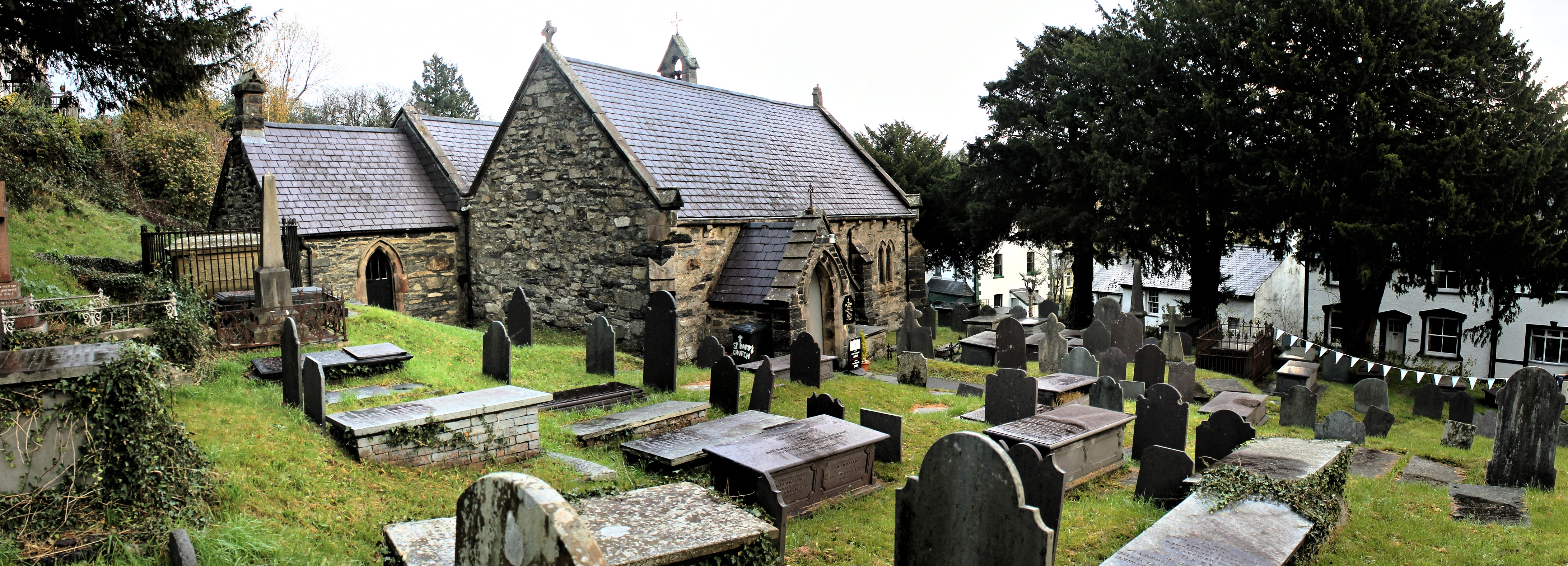 St Mary's church, Trefriw, Conwy, Wales. Grade: II* Date Listed: 13 October 1966. Cadw Building ID: 3219